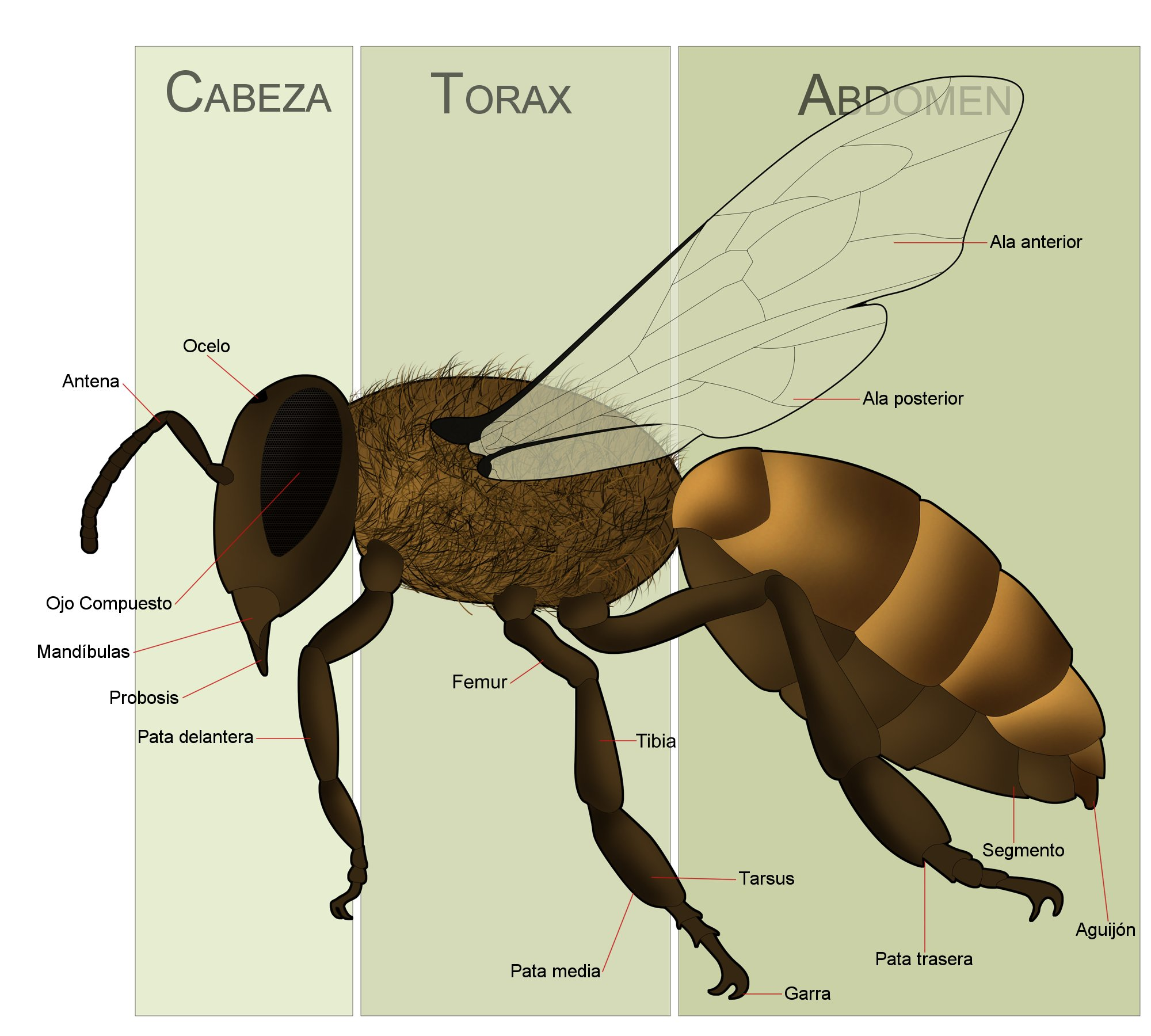 Female Honey Bee Morphology for the article on Bees. It can be identified as a female by both the number of divisions on its antenna and by its sting.